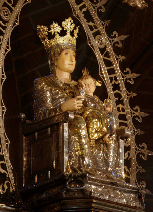 maria pamplona cathedral